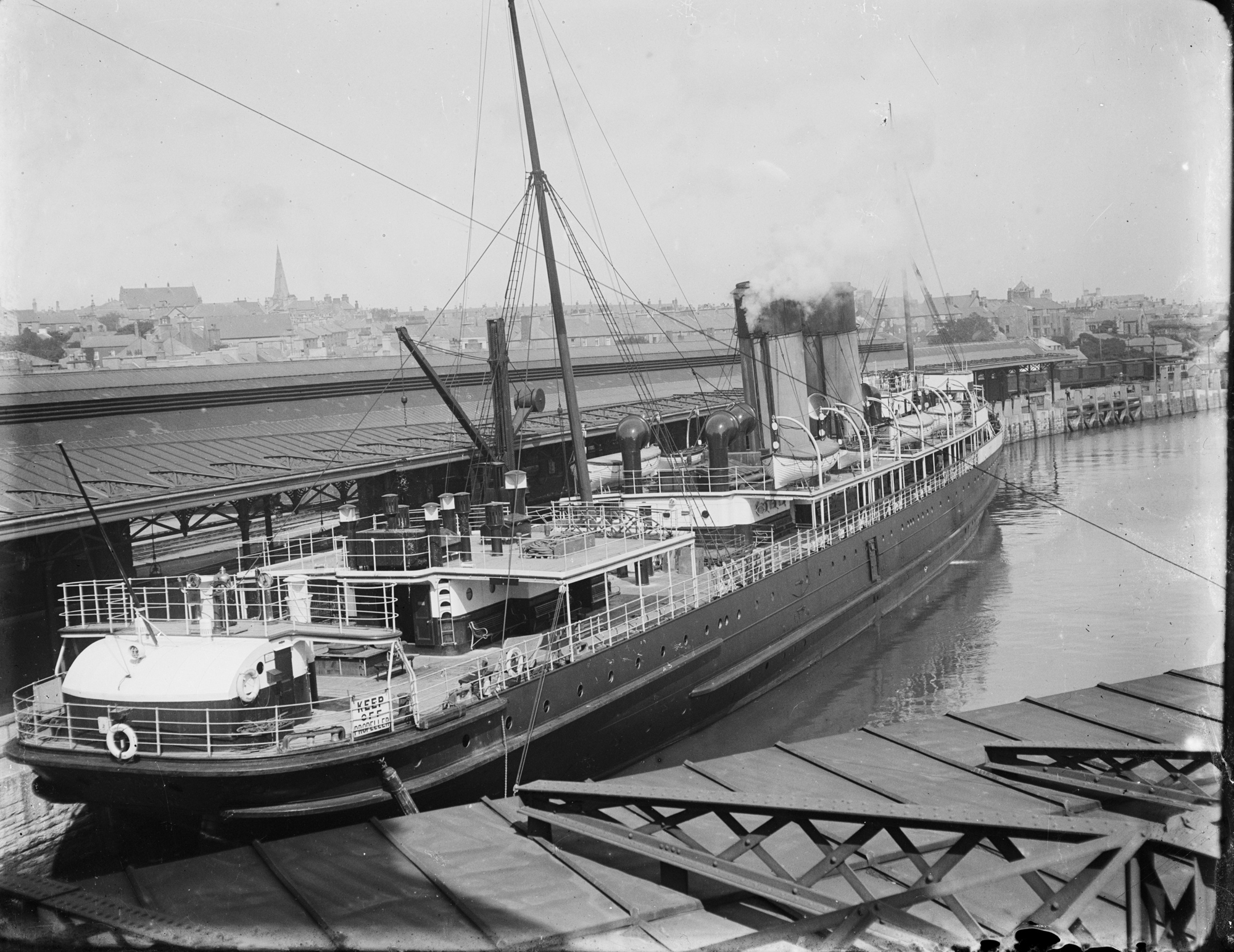 Displaying a fine example of Eats, Shoots and Leaves signage, this is the SS Scotia docked at Holyhead in Wales. Photographer: [=authorStr: J.J. Clarke] Date: Circa 1902-1904 NLI Ref.: CLAR19